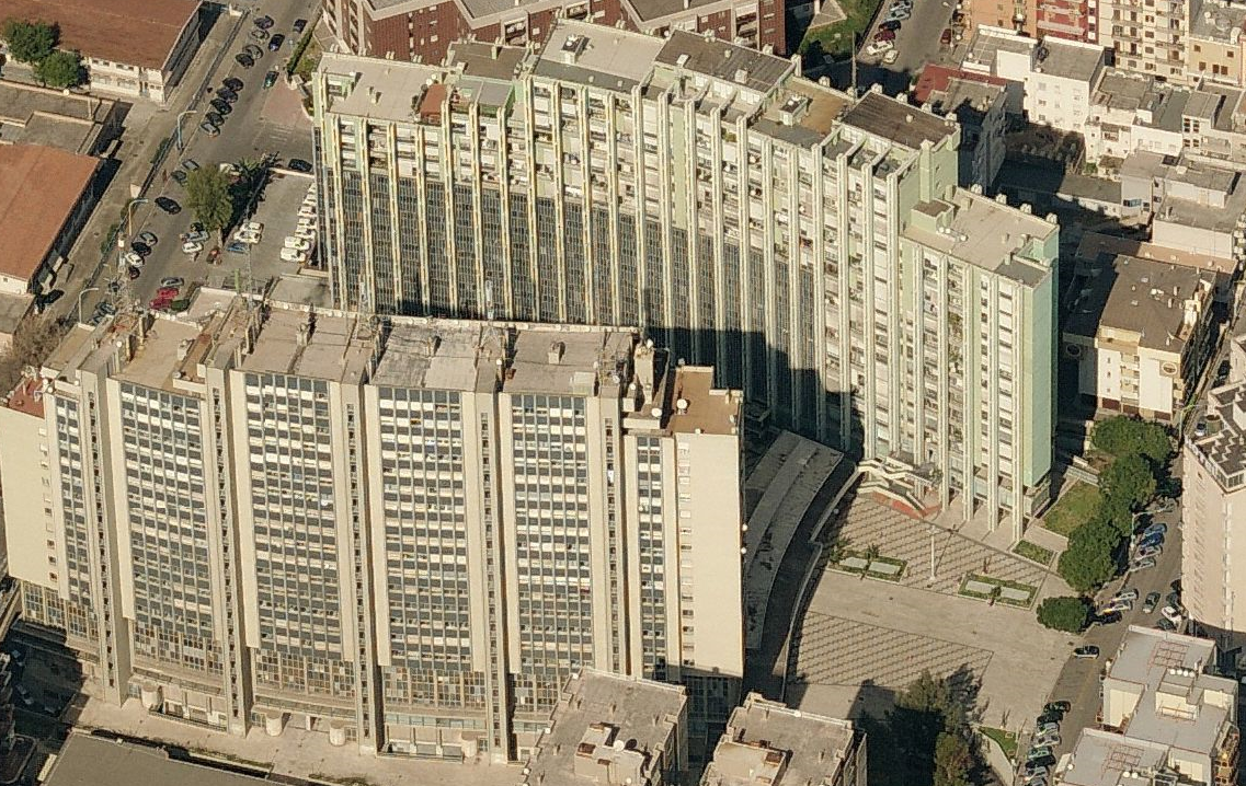 The BESTAT Skyscraper